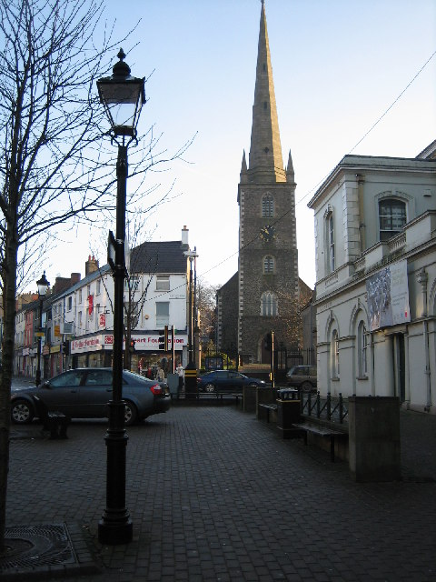 Christ Church Cathedral, Lisburn. It's very hard to photograph, because of surrounding buildings. (viewed from Market Square)